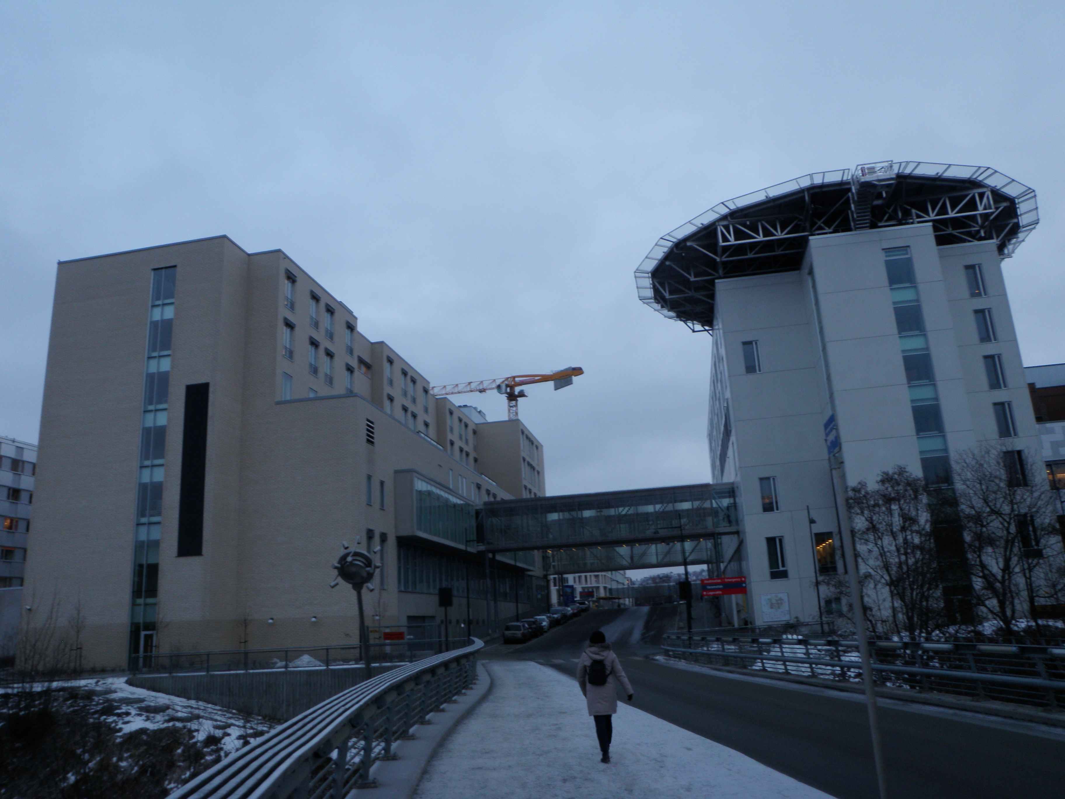 View of St Olav's University Hospital from the bridge over the river Nidelva to Marienborg Station.